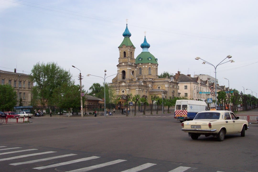 St. Nicholas Berdychiv Church in Berdychiv, Ukraine.